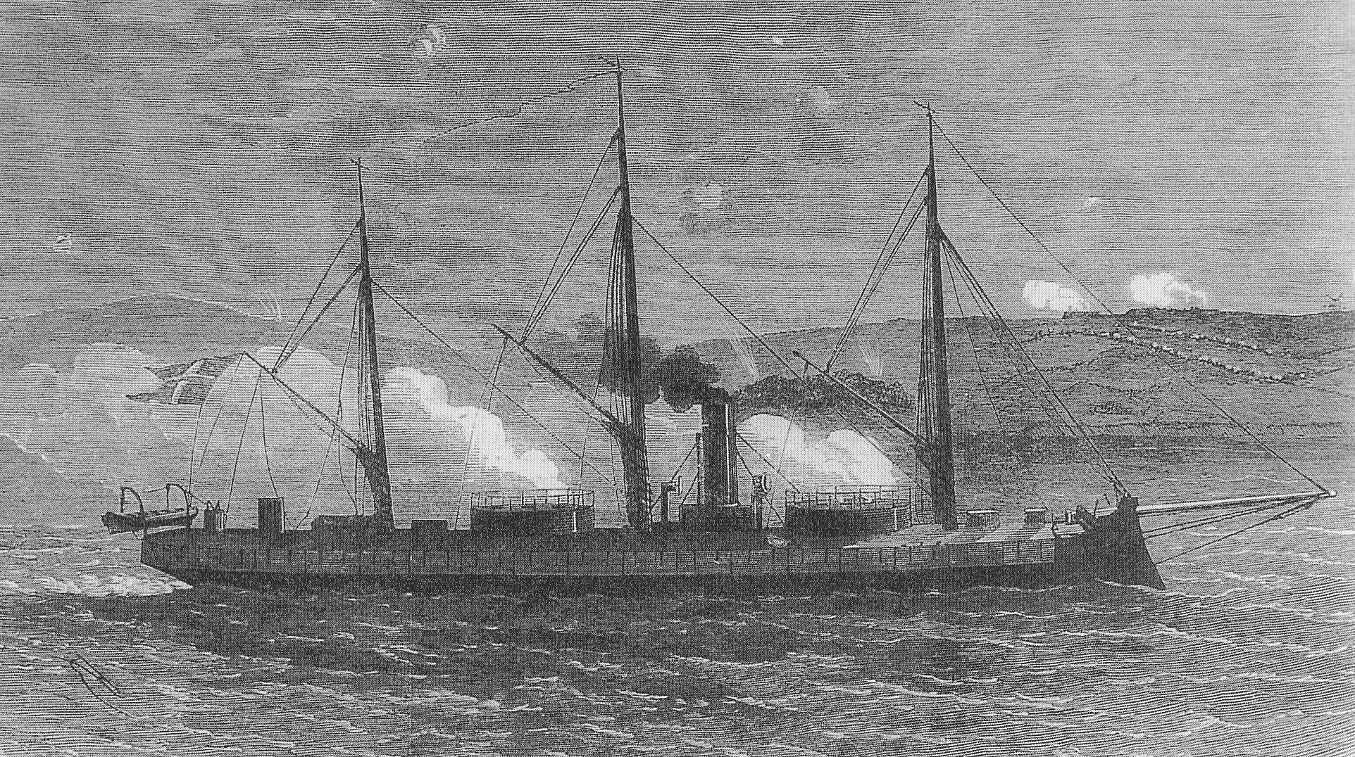 The Danish ironclad Rolf Krake in action at Dybbøl, firing at the Preussians in the Second Schleswig War, 1864.